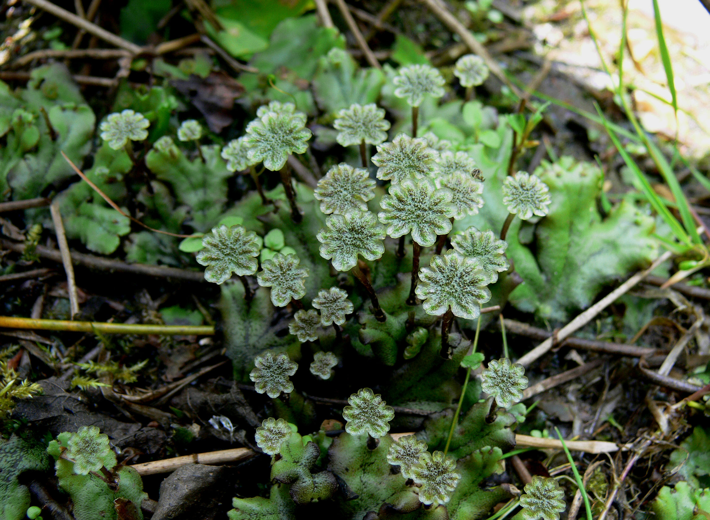 Male Marchantia plants at the edge of a pond